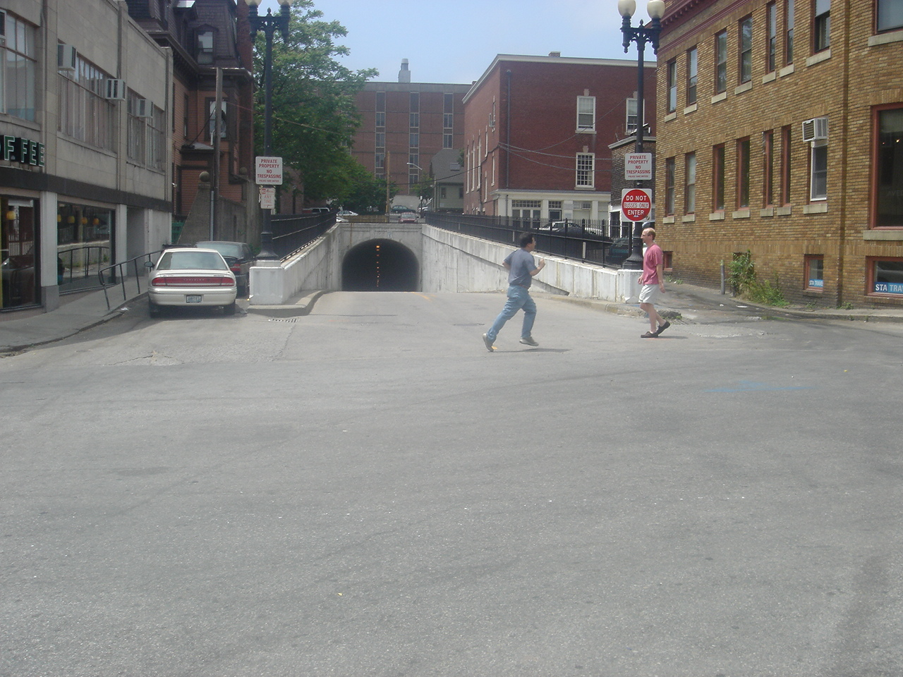 The East Side Trolley Tunnel in Providence, RI, as photographed from Thayer Street.